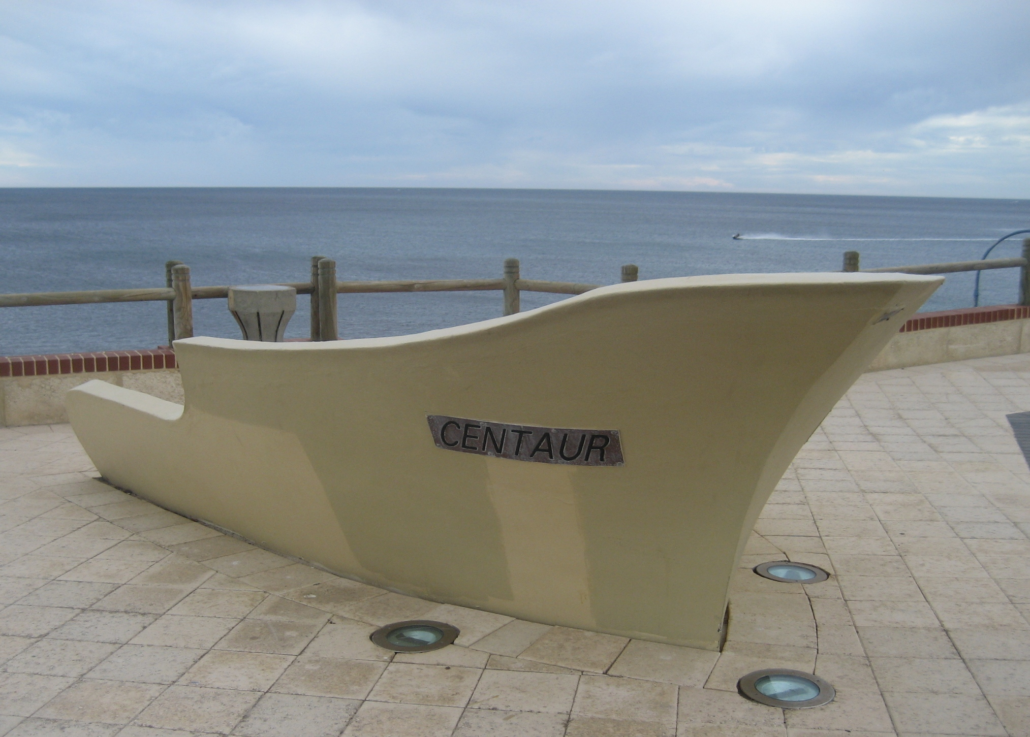 Public art - Centaur Memorial, North Beach Perth